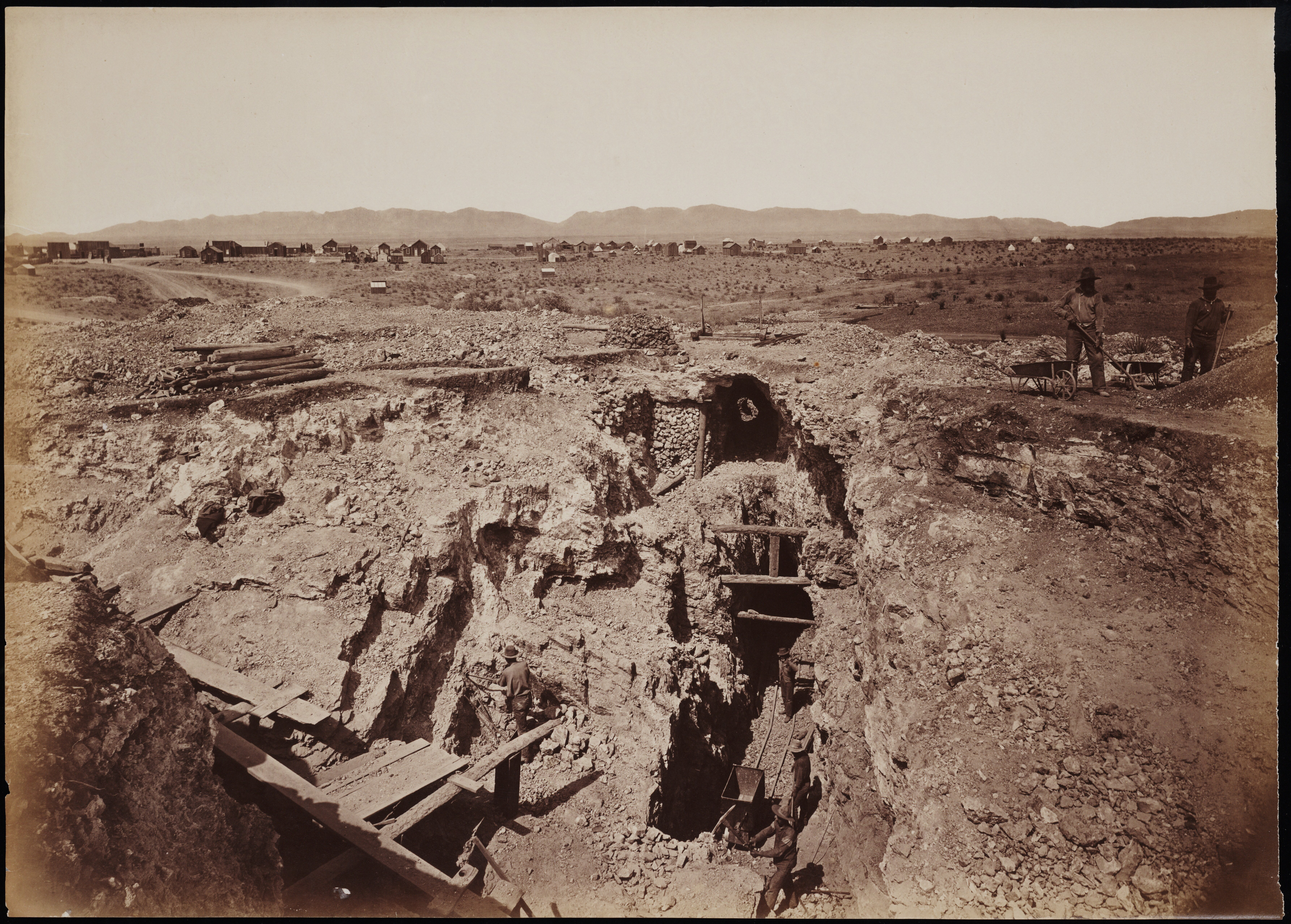 "Old South Shaft Ore Quarry, Face of Tough-nut Mine, part of Town of Tombstone, Arizona. Dragoon Mountains, with Cochise Stronghold in background," mammoth plate, by the American photographer Carleton E. Watkins. Courtesy of the Yale Collection of Western Americana, Beinecke Rare Book and Manuscript LIbrary, Yale University, New Haven, Conn.